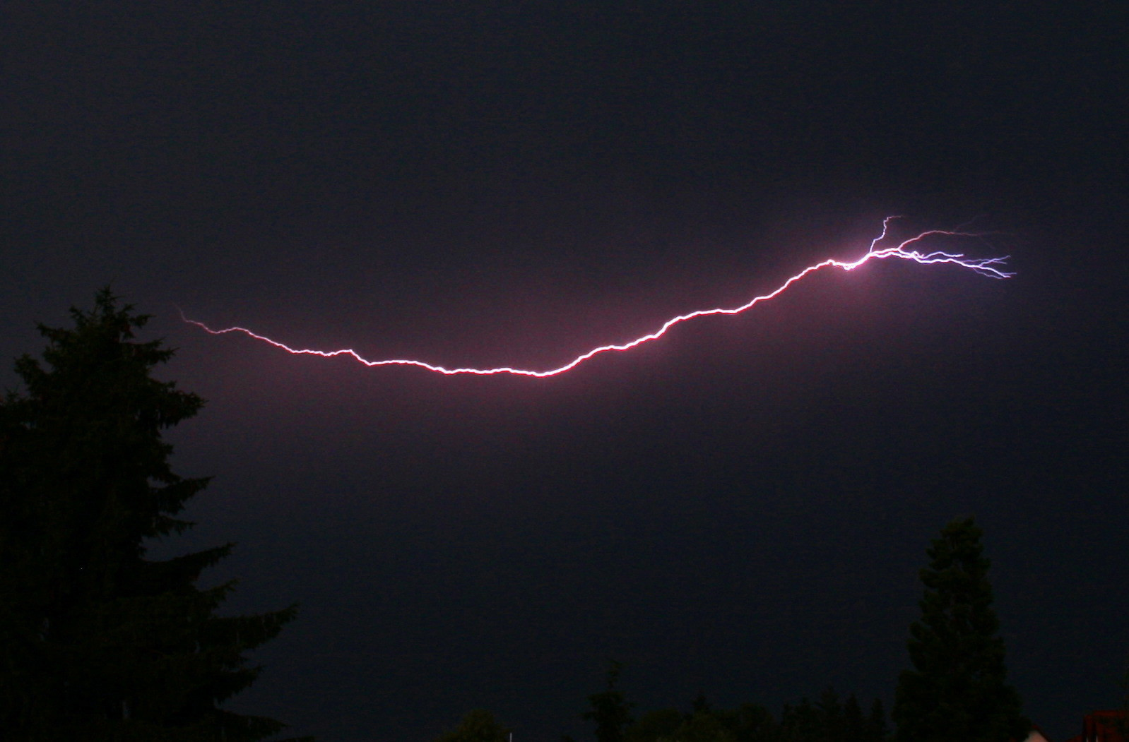 Lightning over Steinenbronn, Germany Photo: Valerie Imre (uploader)